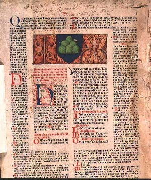 This image belongs to a manuscript copy of the book Decretum Gratiani Original belonging to the XIII century .